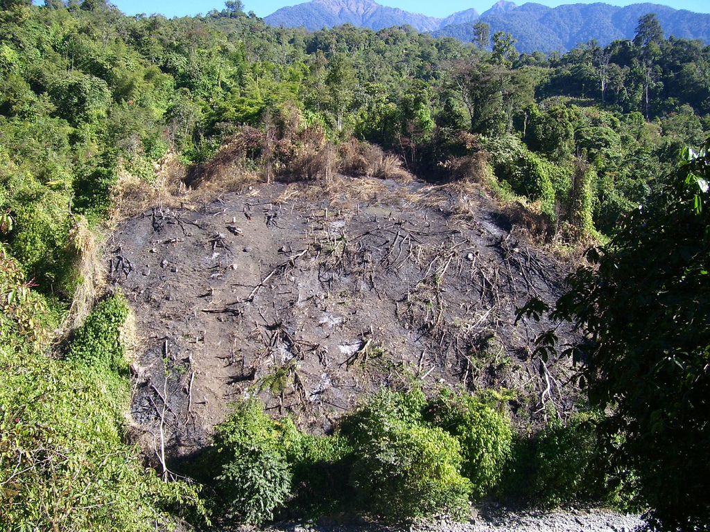 Land cleared for Jhum, a type of shifting cultivation practiced in North-east India. This photo from Gandhigram in Vijaynagar circle of Arunachal Pradesh, India.